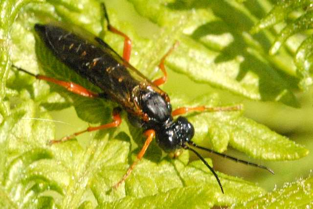 Ametastegia gIabrata from Commanster, Belgian High Ardennes .